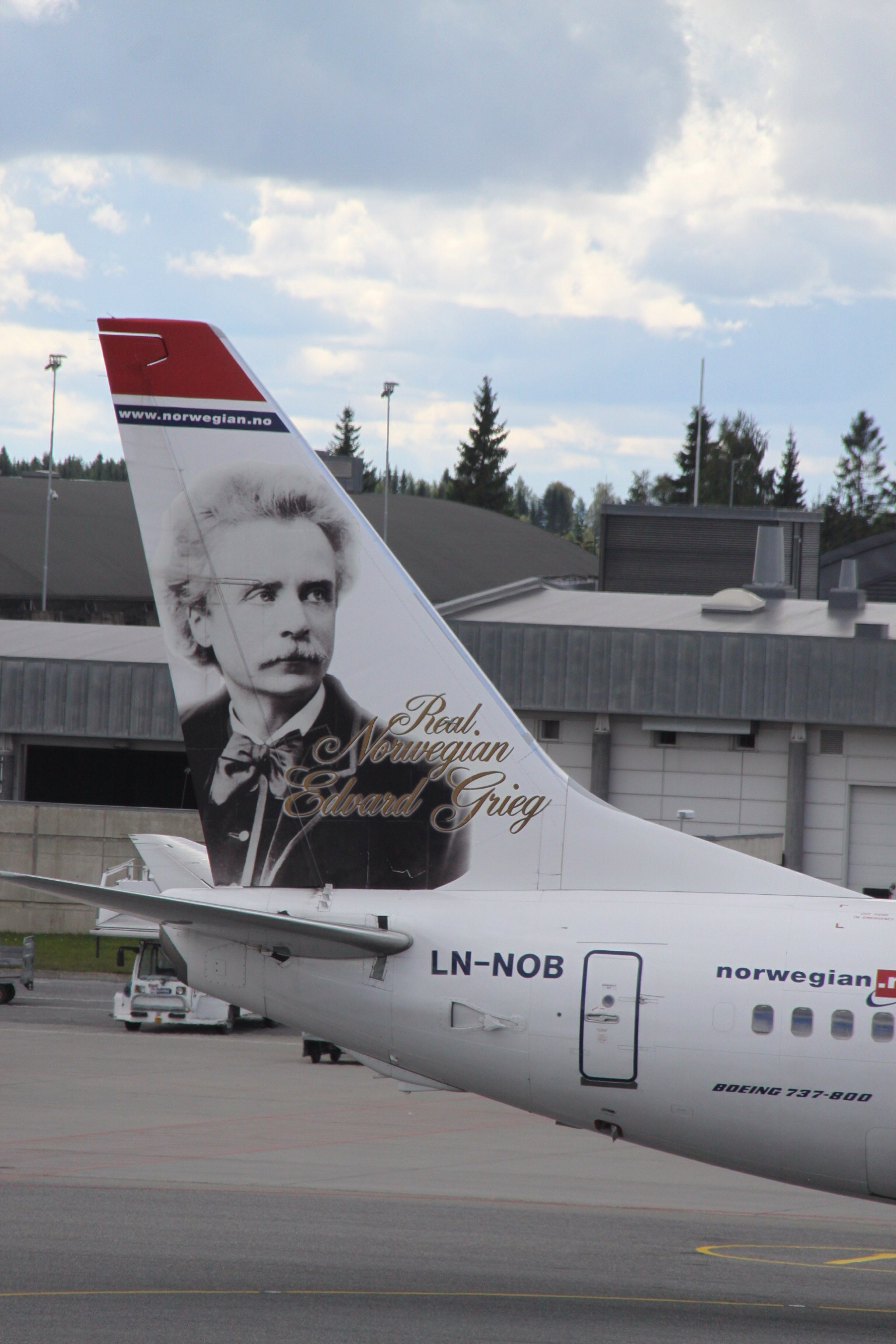 At Oslo Gardermoen